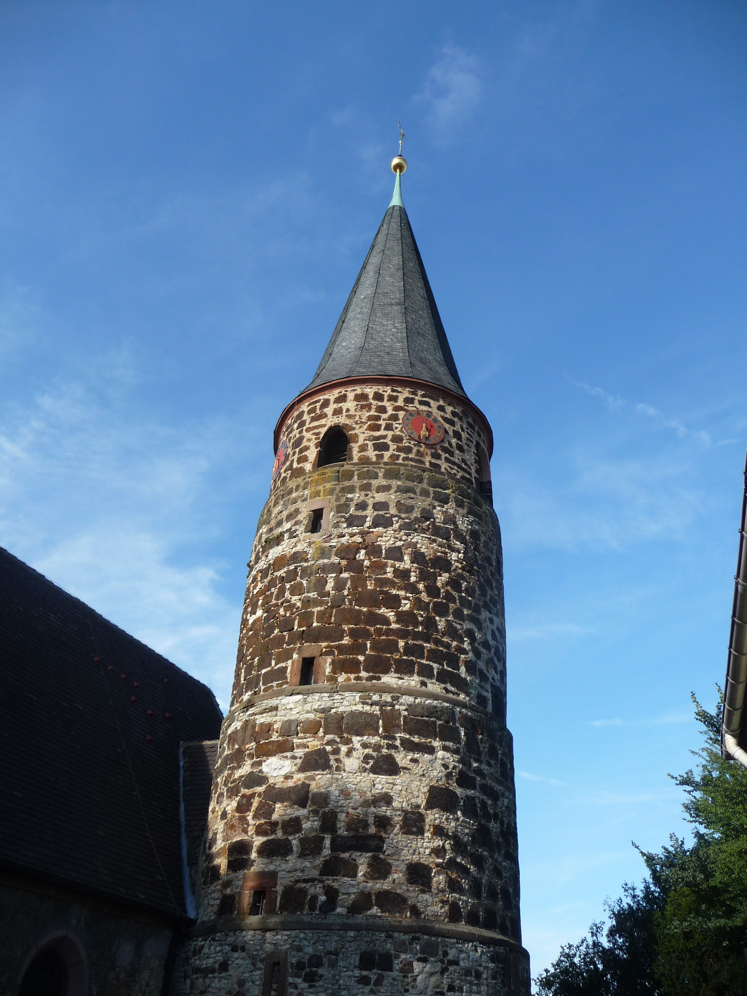 Asselheim ist ein Stadtteil von Grünstadt im Landkreis Bad Dürkheim in Rheinland-Pfalz.